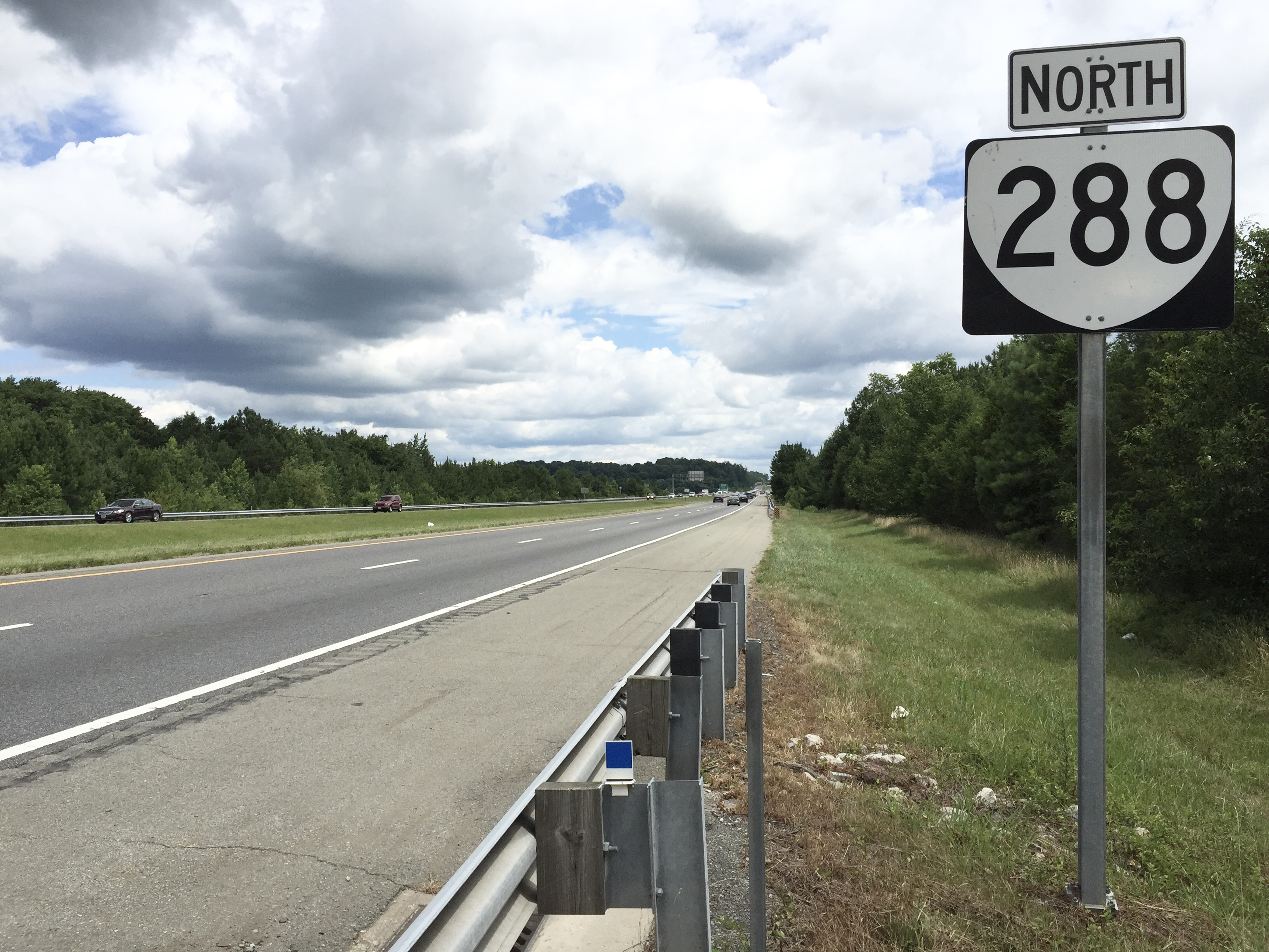 View north along Virginia State Route 288 (World War II Veterans Memorial Highway) just north of Huguenot Trail (Virginia State Secondary Route 711) in eastern Powhatan County, Virginia